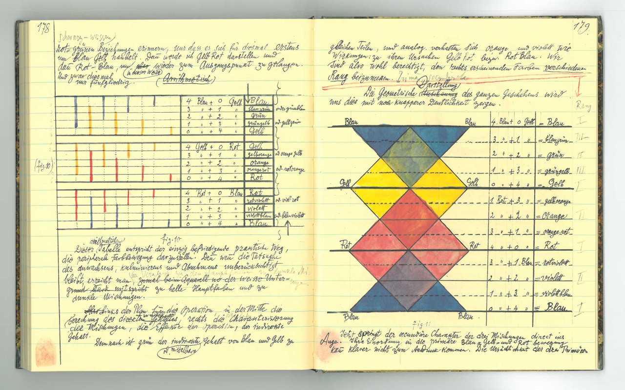 Pages from a notebook by Paul Klee. "3,900 Pages of Paul Klee’s Personal Notebooks Are Now Online, Presenting His Bauhaus Teachings (1921-1931)" – see sourcelink.